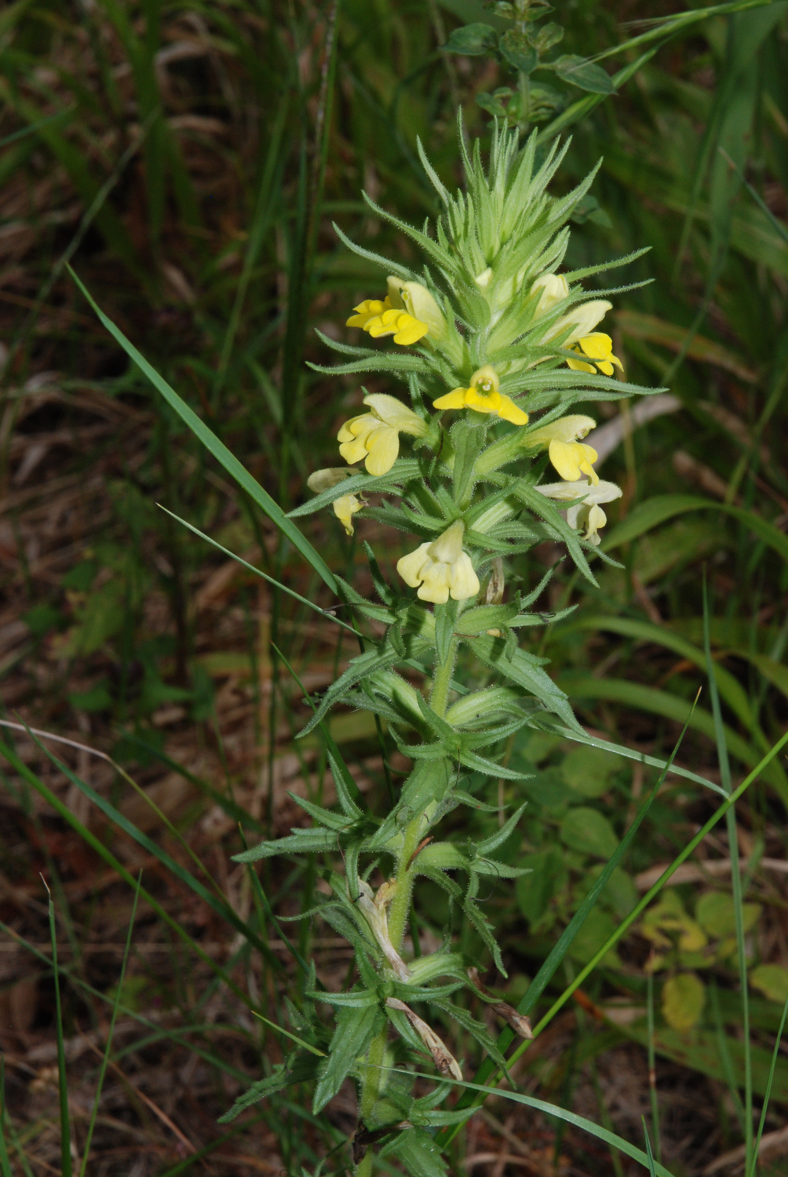 Parentucellia viscosa, Roadside near Cubo de la Galga, La Palma, Spain